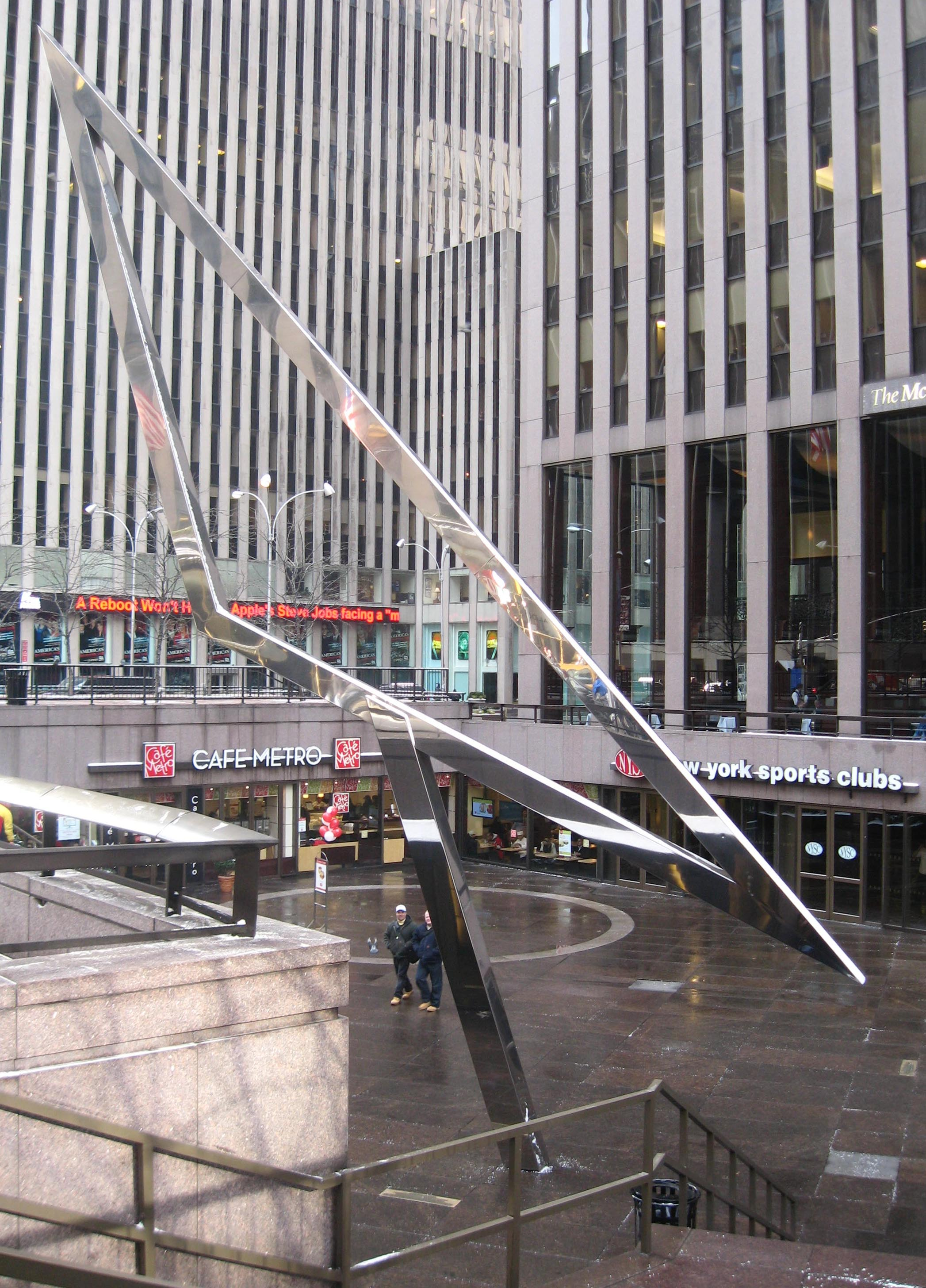 Looking down and west at triangle in front of en:1221 Avenue of the Americas on a cloudy winter afternoon. Circle in background marks former site of a Solar System model.